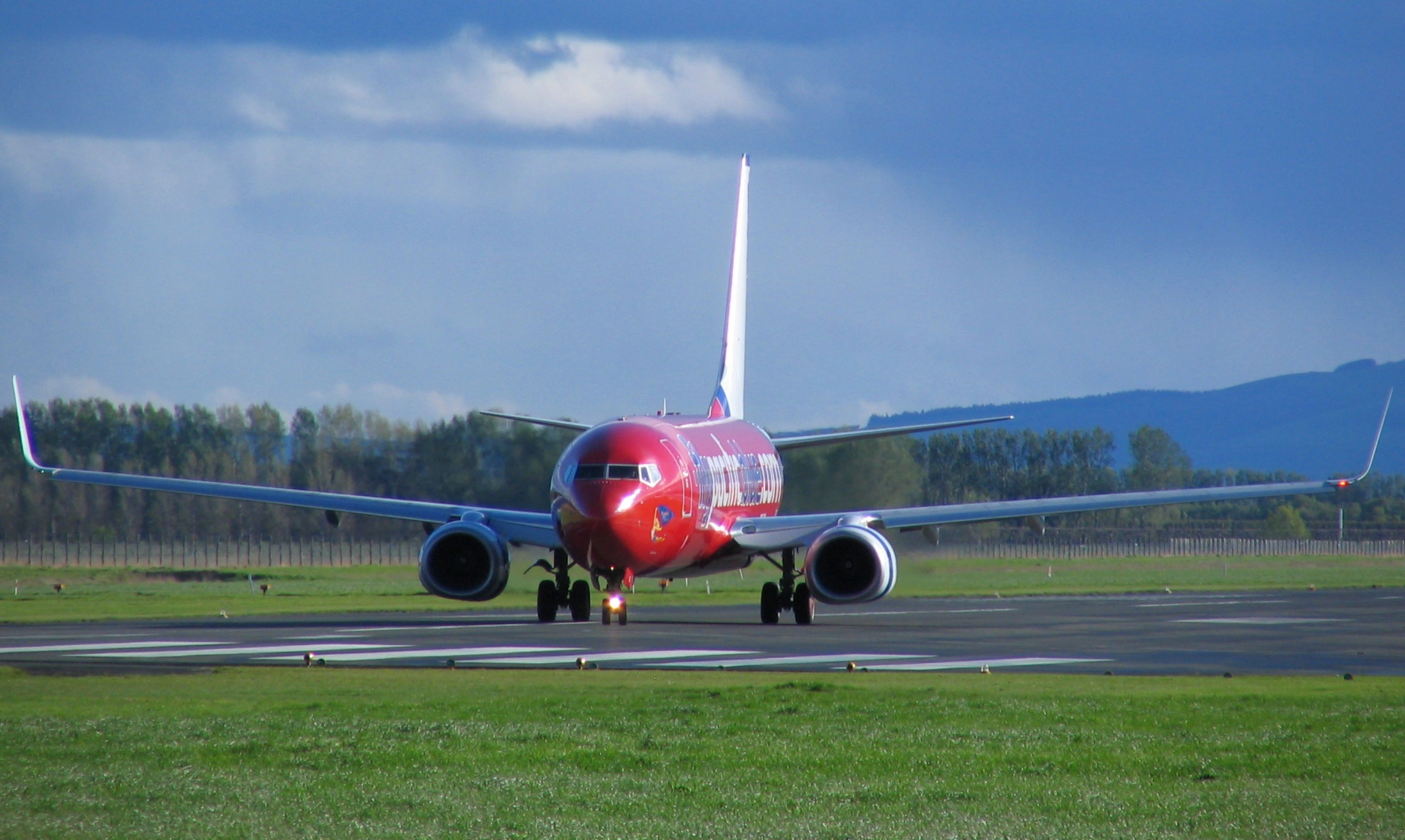 Pacific Blue Boeing 737-800 ZK-PBI, turning right to take off from runway 21, Dunedin International Airport